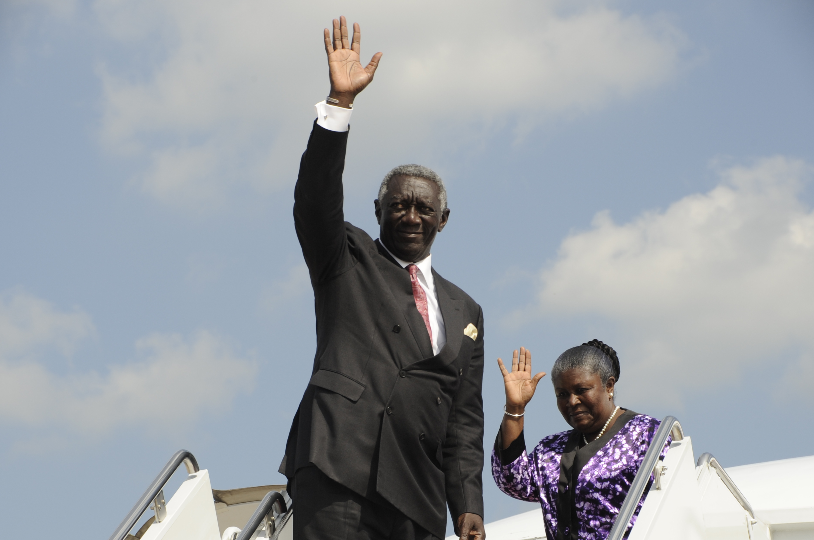 President of Ghana, John Agyekum Kufuor, left, and Mrs. Theresa Kufuor, wave goodbye, before departing from Andrews Air Force Base